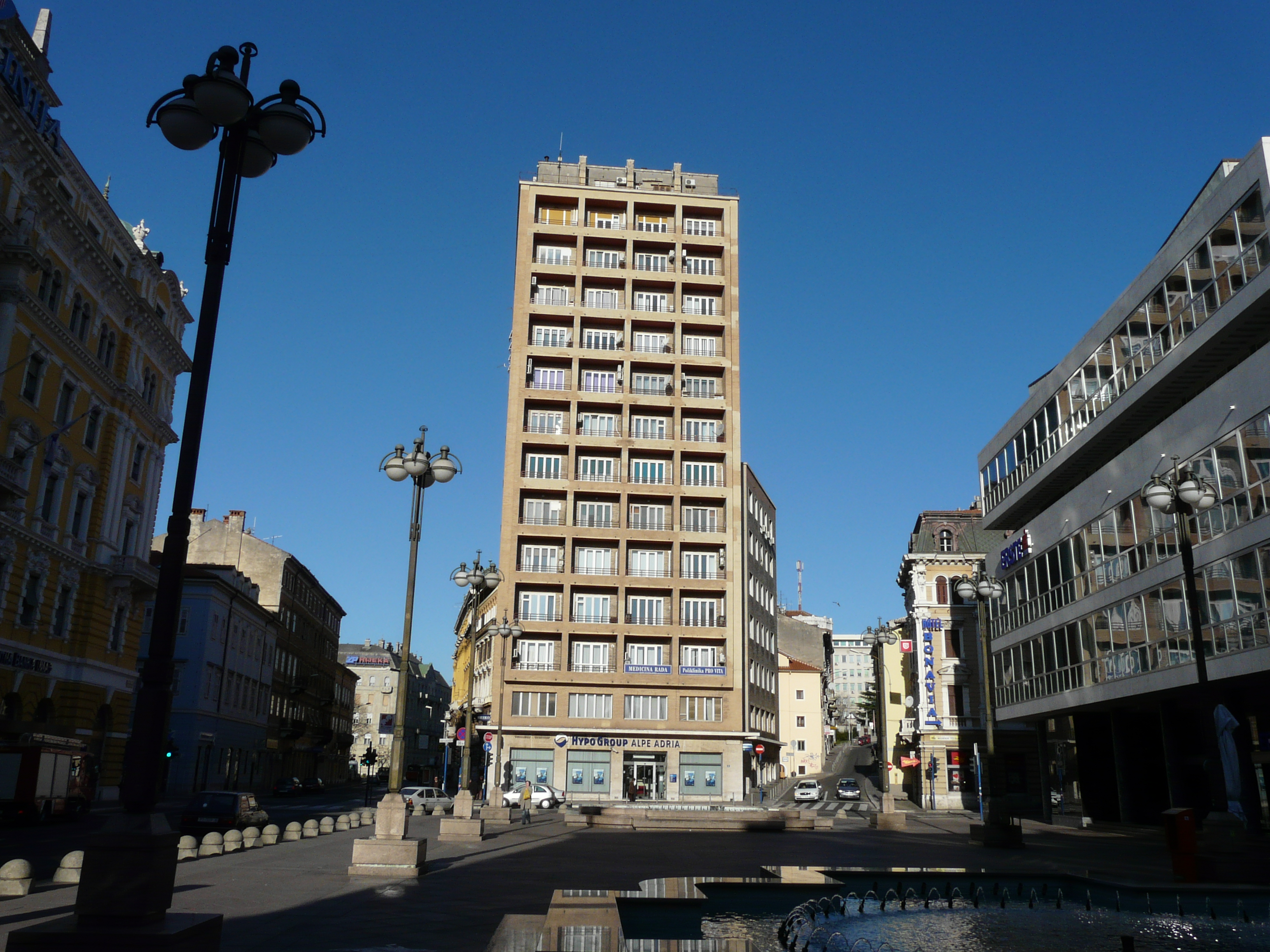 Rijechki Neboder on Jadranski Square.